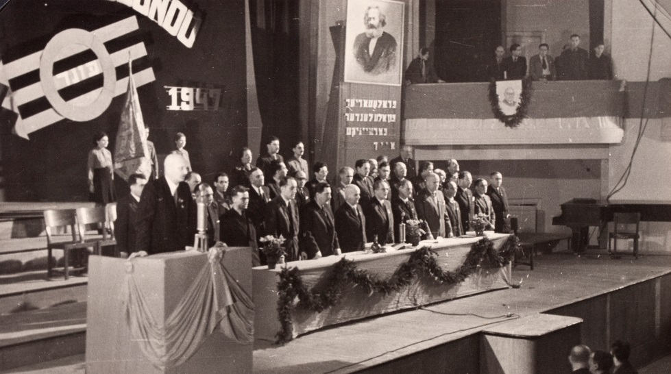 Polish Bund 50 year anniversary celebration, 15 November 1947. Photo by Dąbrowiecki.